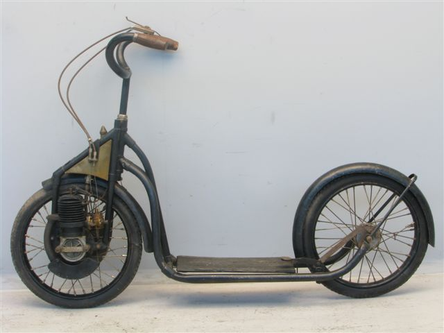 Austro Motorette 82 cc autoped from 1922